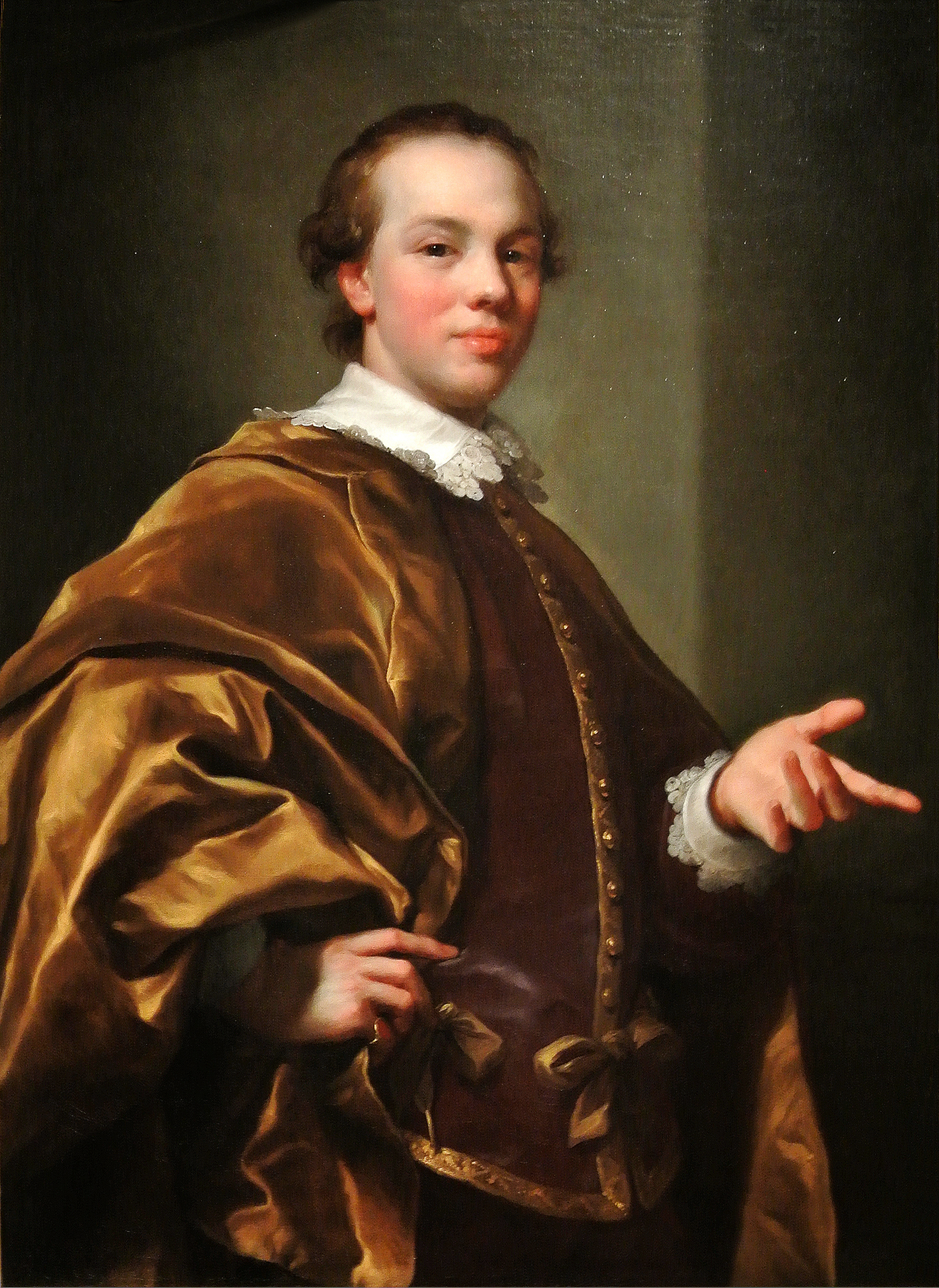 Portrait of John Viscount Garlies, Later 7th Earl of Galloway, as Master of Garlies.